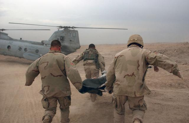 US Army (USA) Soldiers assigned to 2-7 Cavalry, 2nd Brigade Combat Team (BCT),3rd batt- 1st Division, rush a wounded Soldier from Apache Troop to a waiting US Marine Corps (USMC) CH-46E Sea Knight helicopter during operation in Fallujah, Iraq, during Operation IRAQI FREEDOM.